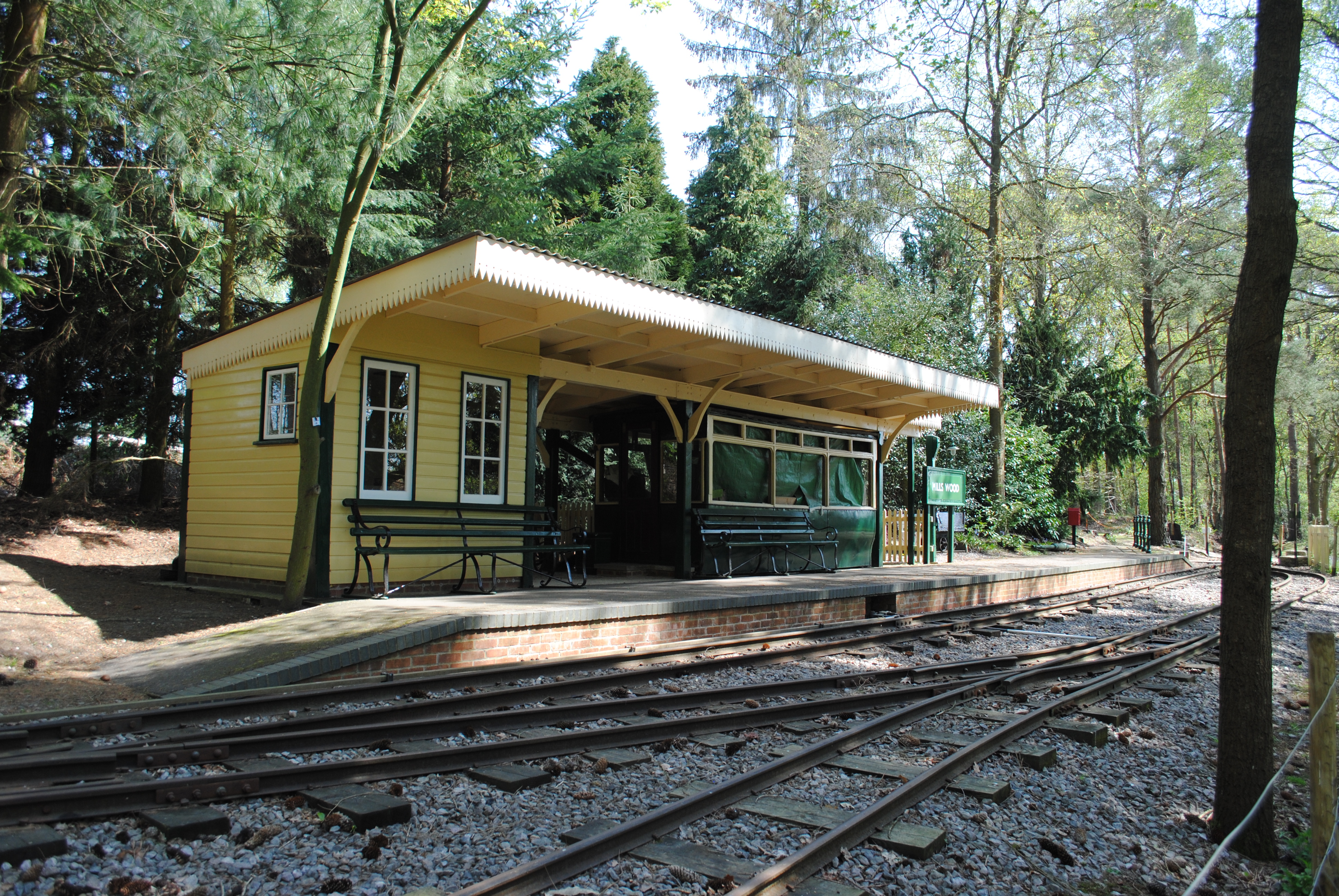 The higher-gradient station on the Old Kiln Light Railway, Mills Wood, is one of their terminuses on the line. Note the built-in waiting room and the added tramcar body.